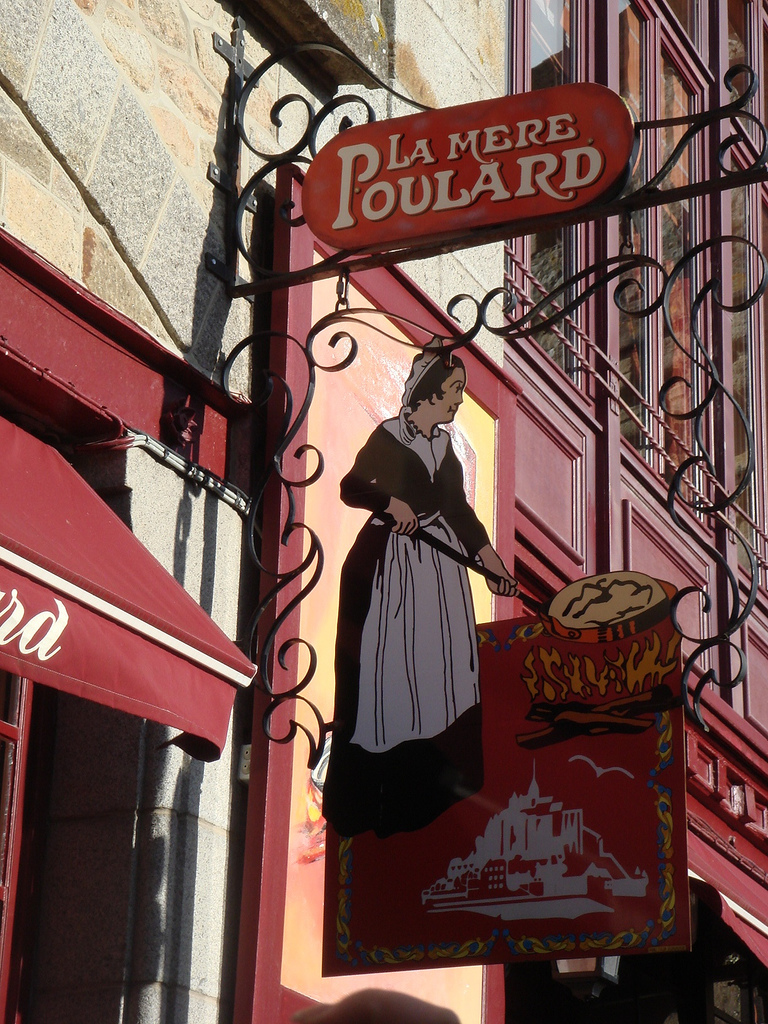 The "La Mère Poulard Restaurant" in Mont Saint-Michel, Normandy.